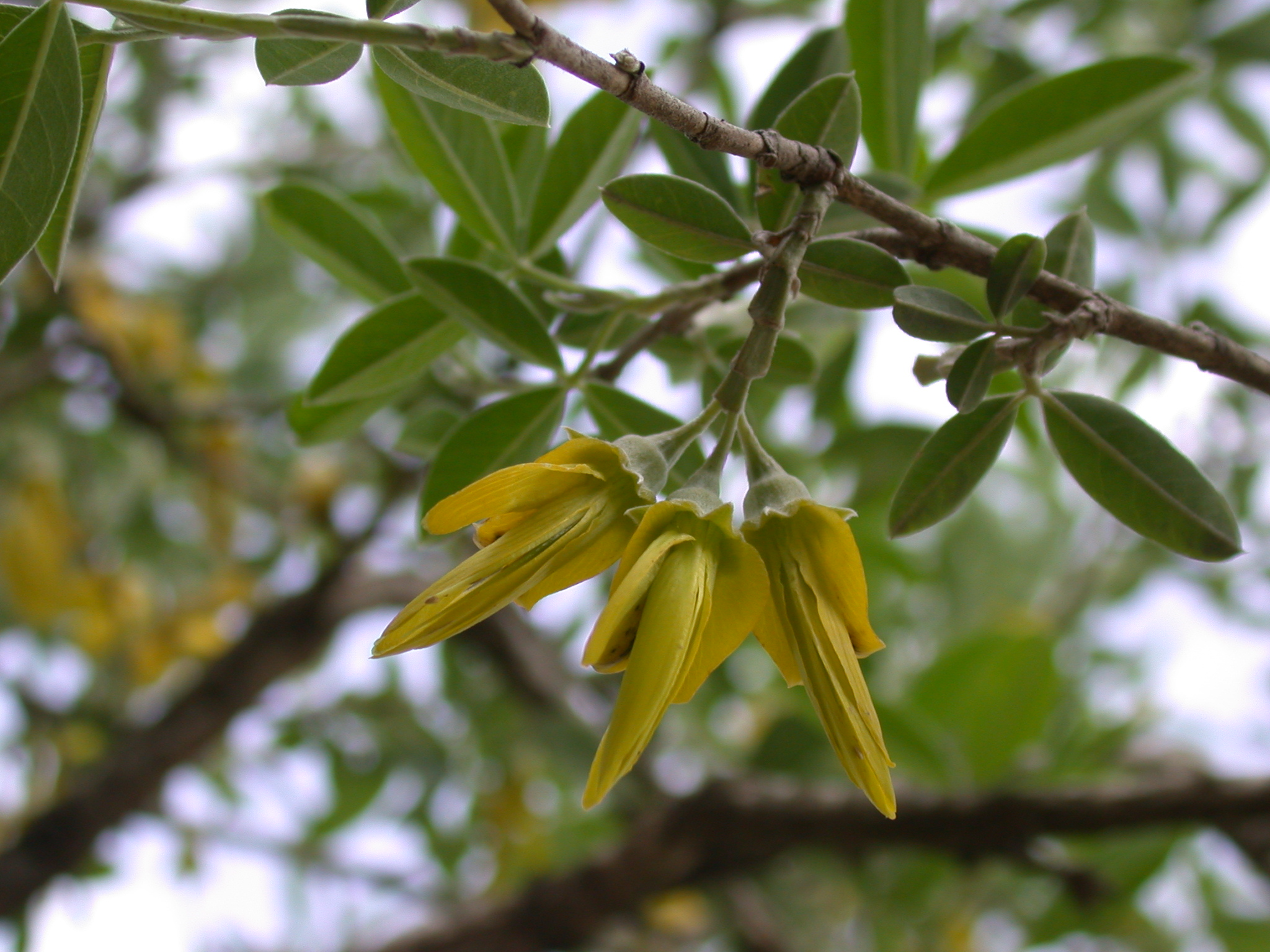 Flowers of Anagyris foetida, Einot Neria, Mount Meron Nature Reservation, Upper Galilee, Israel, March 21, 2006.